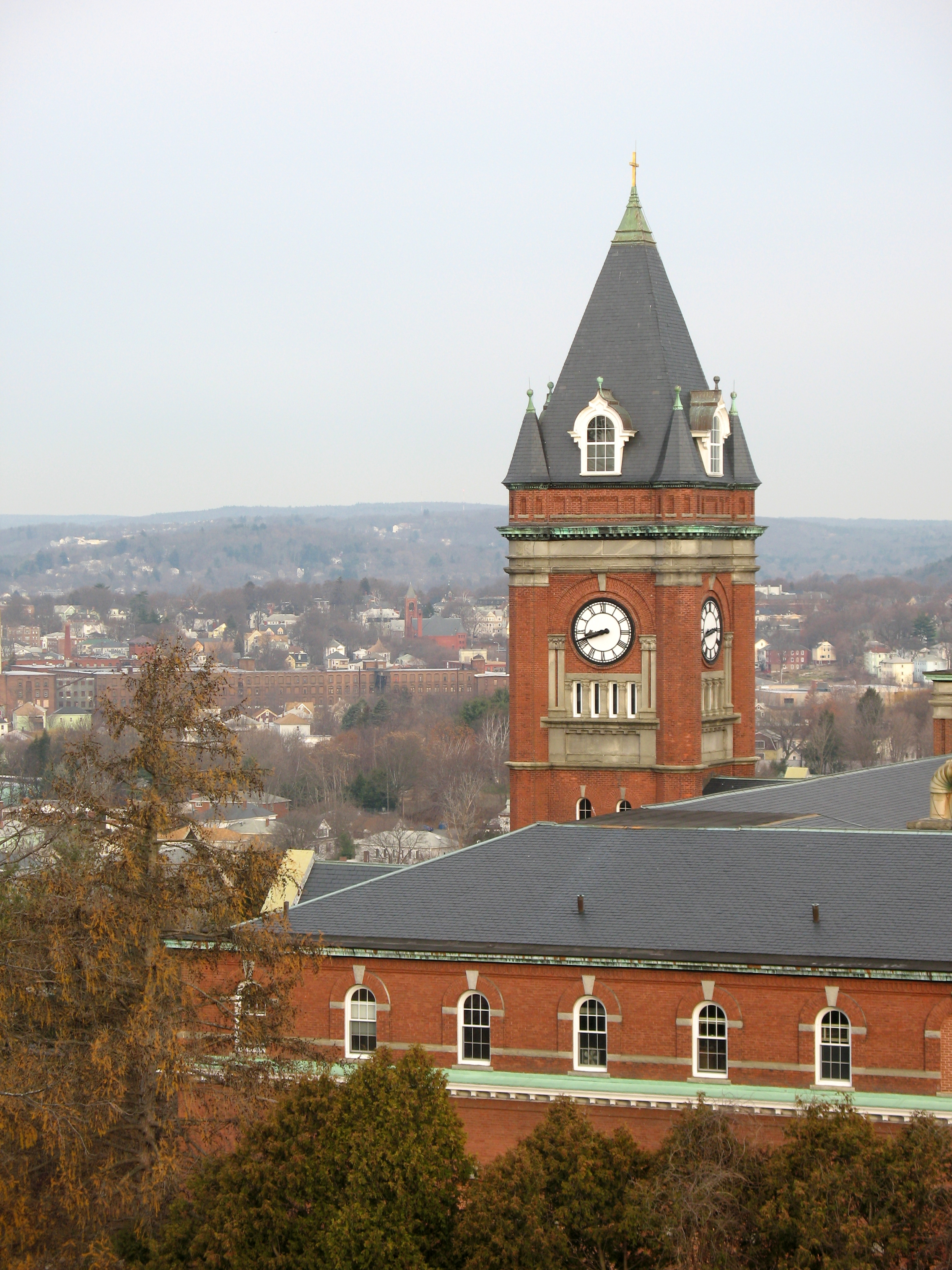 O'Kane Hall and clock tower, College of the Holy Cross. Accessed 03-13-2007